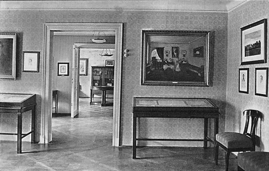 Interior of Schubert-Haus Museum, Nussdorfer Strasse 54, Vienna